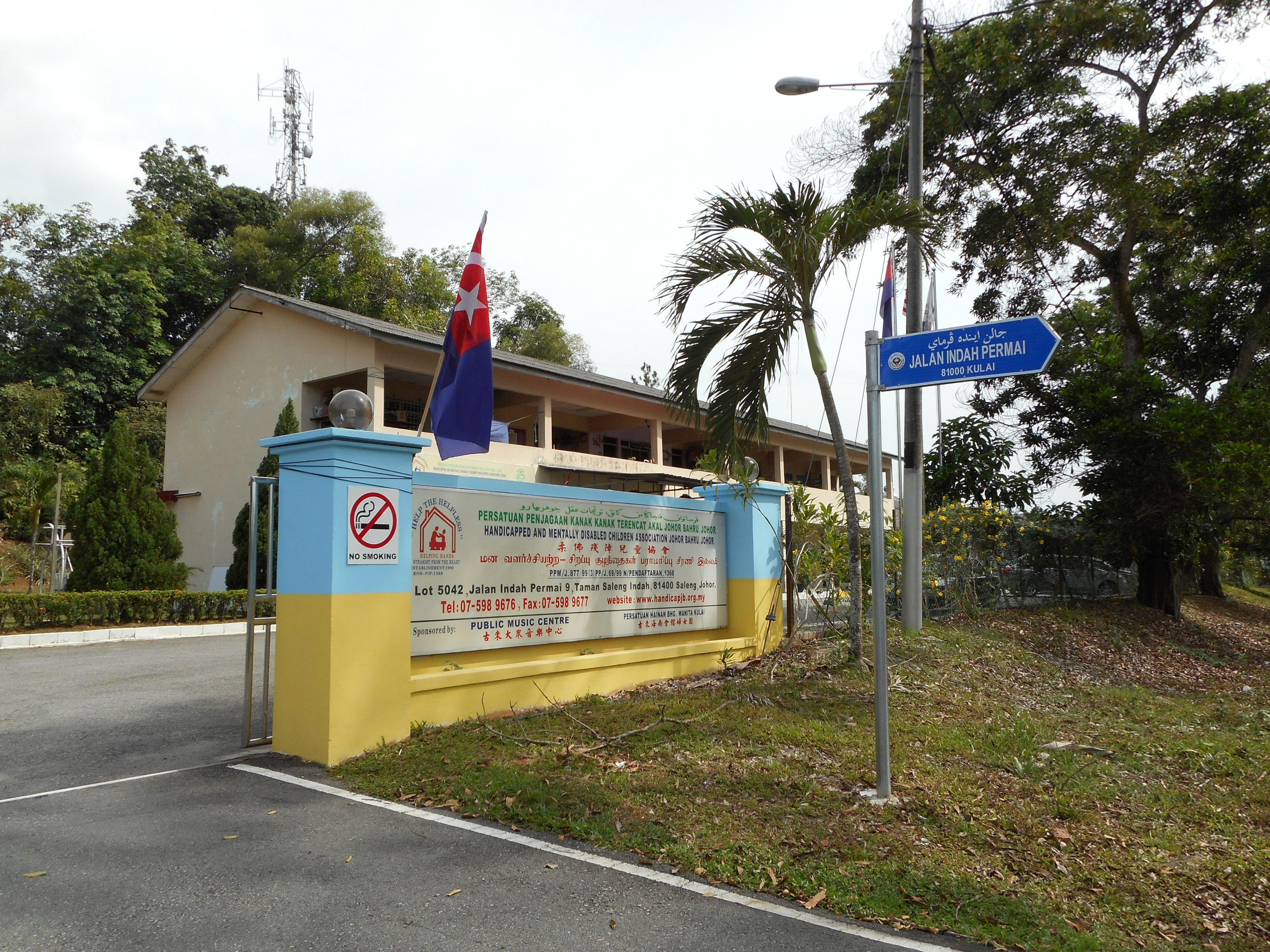 Handicapped and Mentally Disabled Children Association Johor Bahru, Saleng, Kulai, Johor, Malaysia